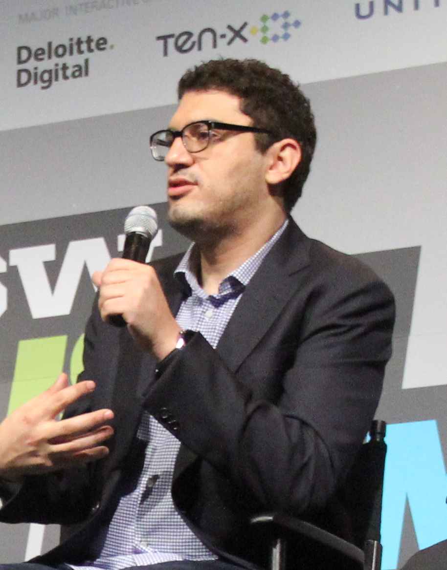 Sam Esmail at a panel at SXSW 2016 about Mr. Robot (TV series).